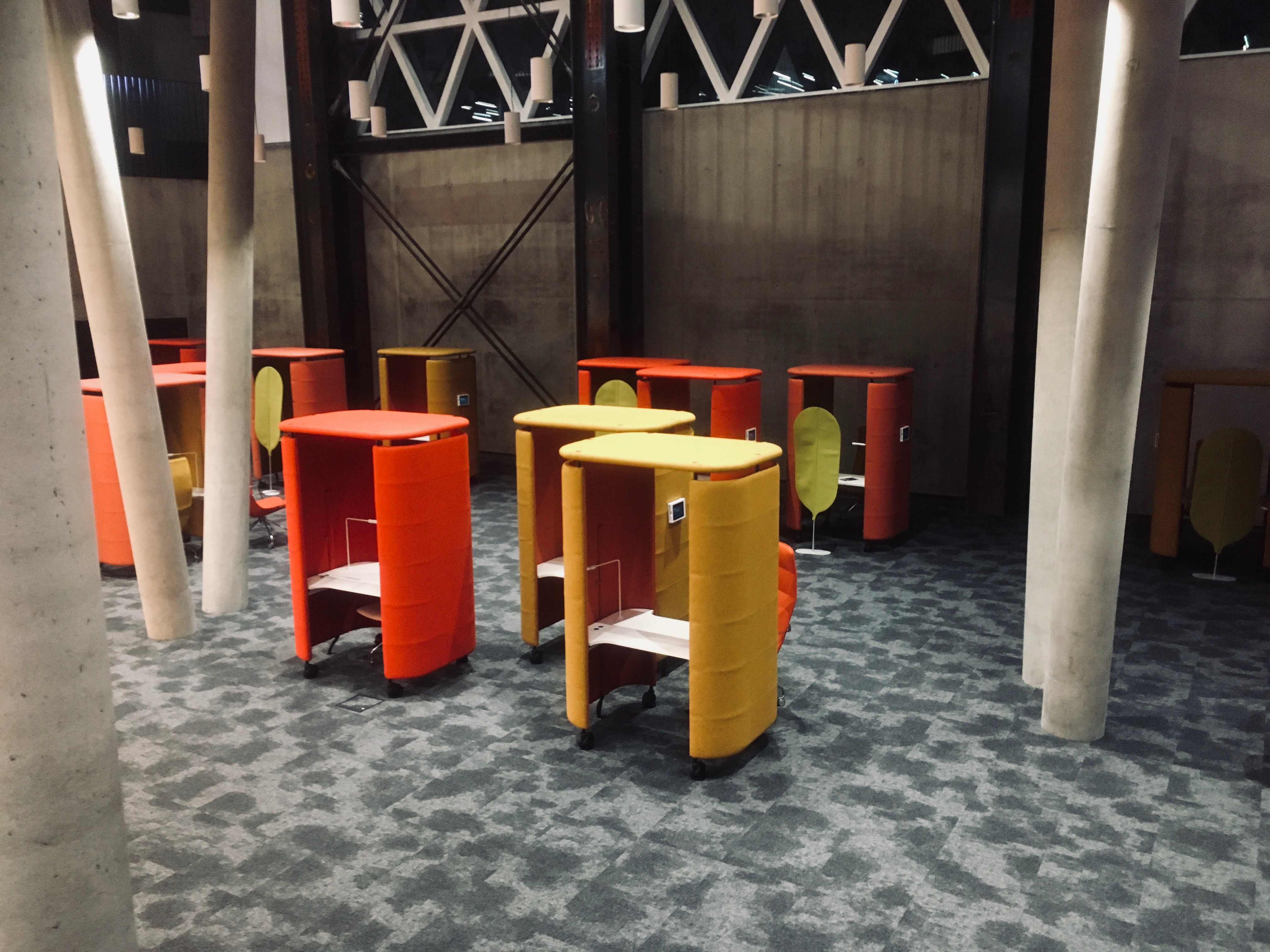 Learning Cubes: individual working places, that can be booked via touch panel.